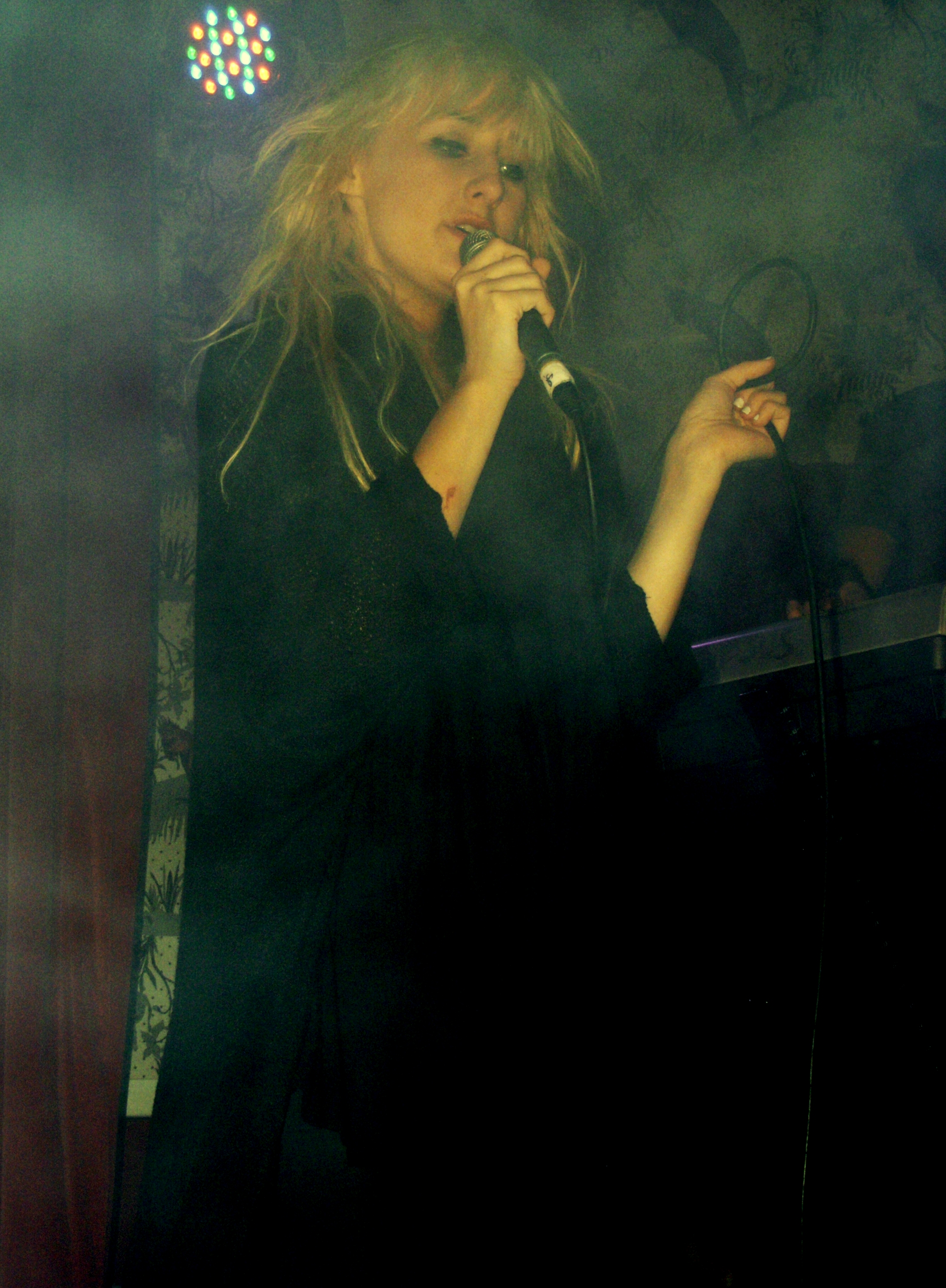 Zola Jesus at the Deaf Institute, Manchester, on Thursday the 2nd of September 2010